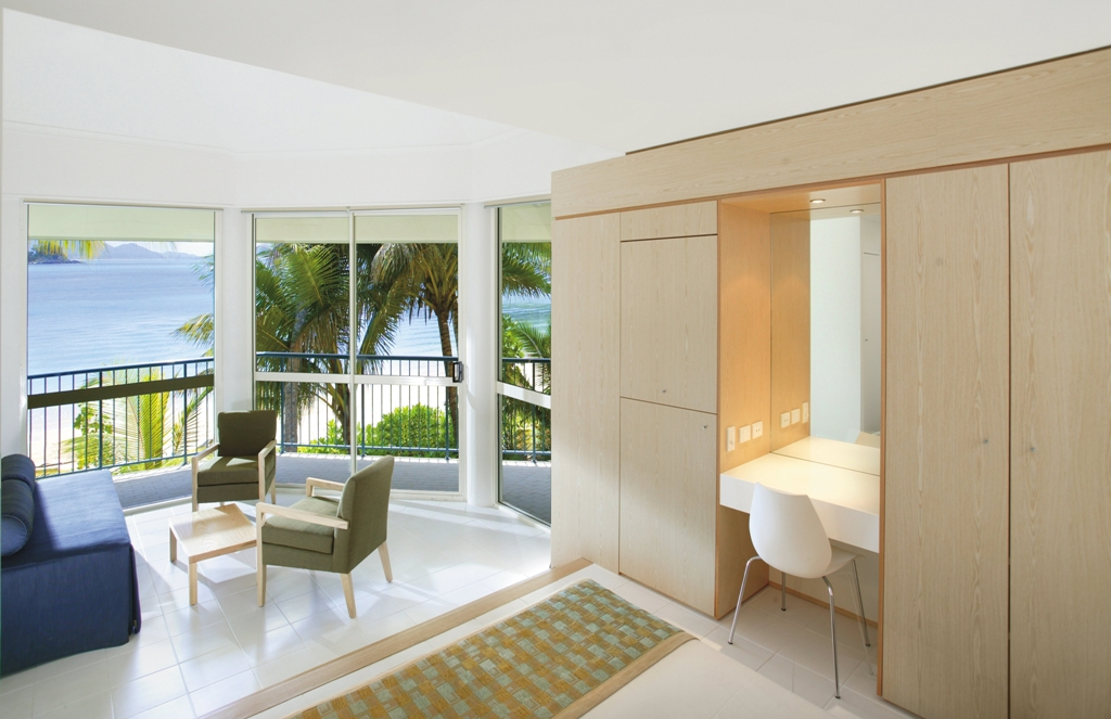 Beachfront Room overlooking Wedgerock Bay on Dunk Island